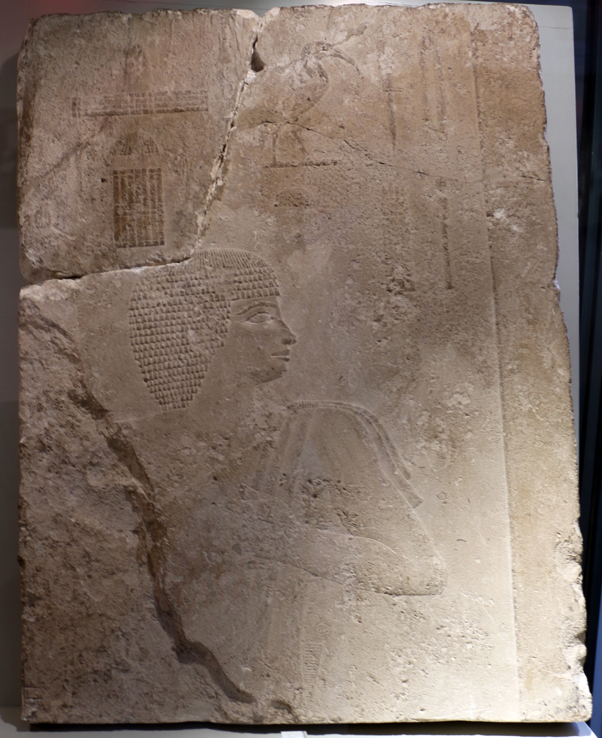 Egyptian antiquities in Museo Barracco (Rome)